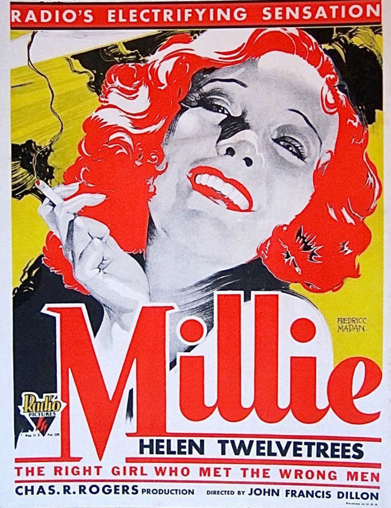 Poster for the 1931 film Millie. This is a copy of a window card poster unedited copy. The top was originally blank so a local theater could affix its own information. The top has been cropped out. There are no copyright marks as can be seen at the links. At bottom right is Printed in USA. The RKO logo at bottom left is identified as being a registered trademark.